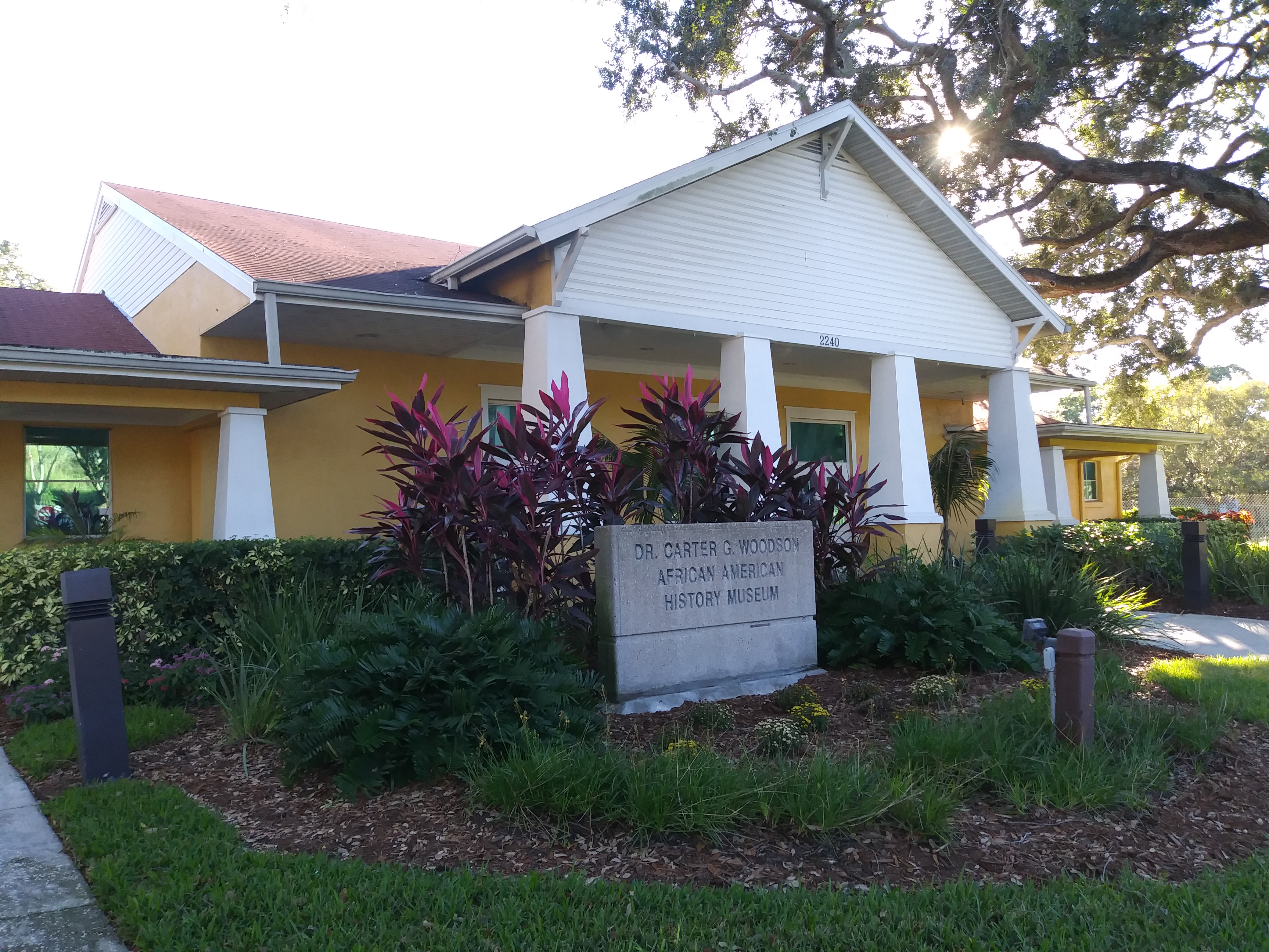 Dr. Carter G. Woodson African American Museum: Front street view of the museum.